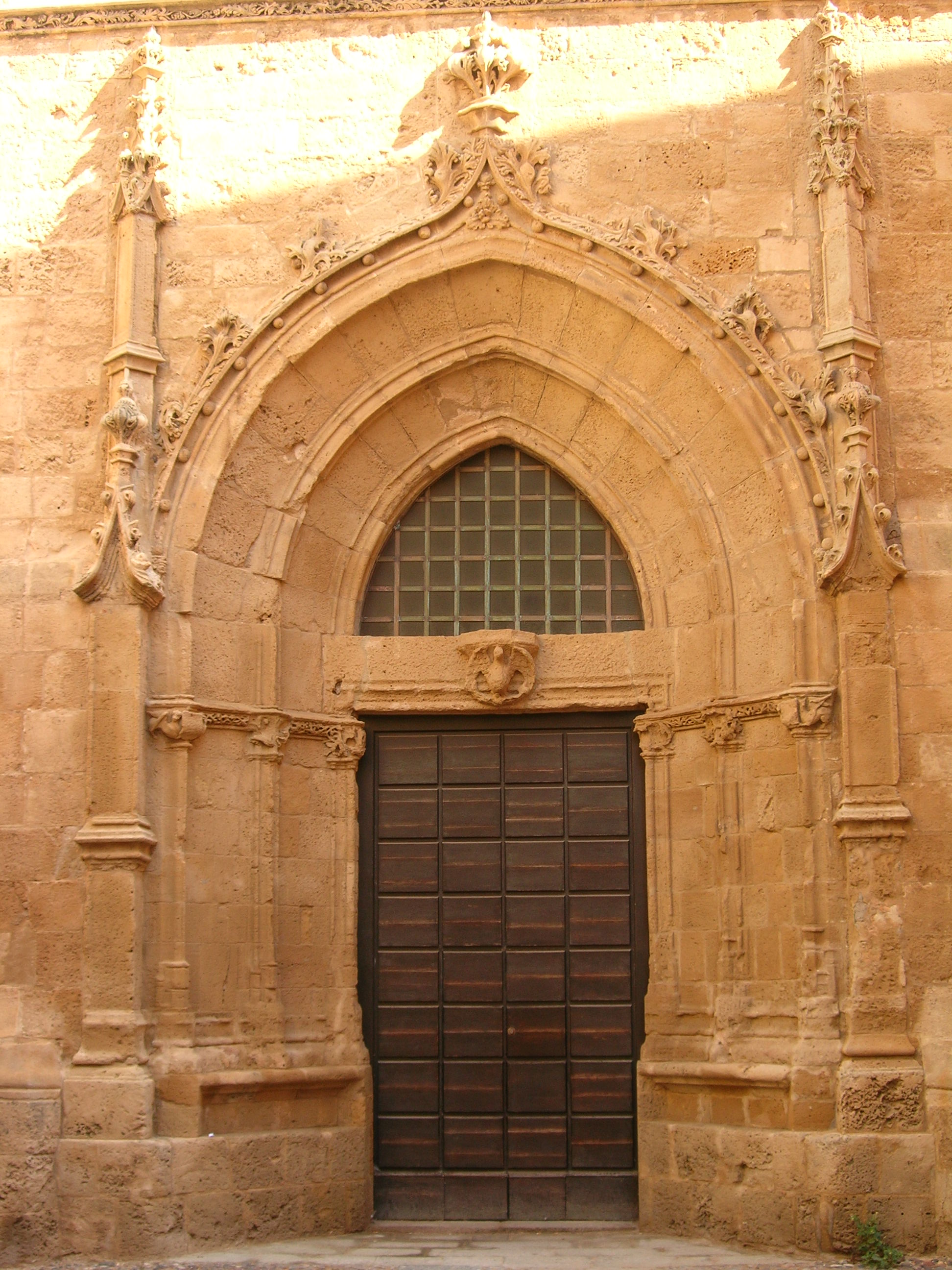 Summary Description